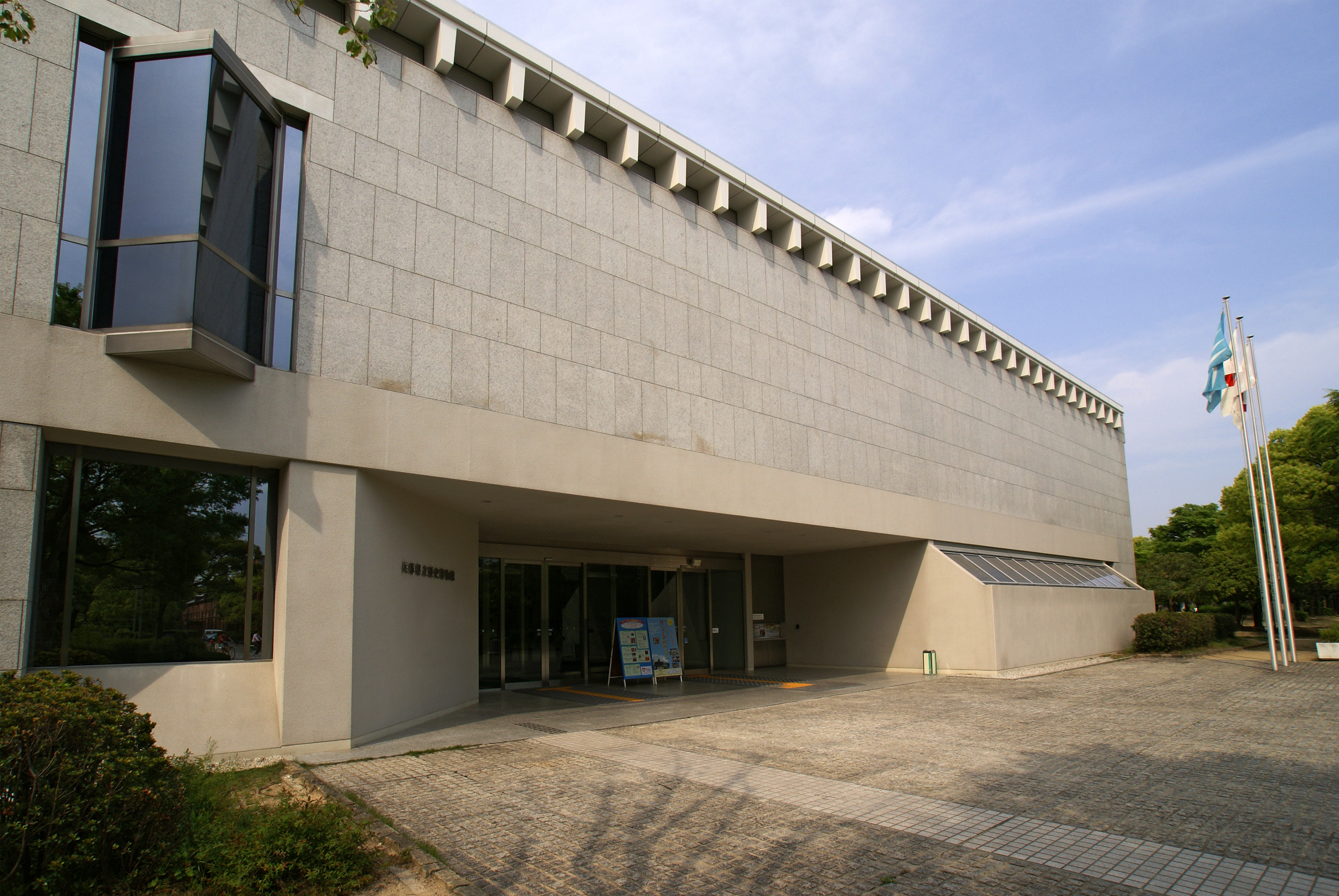 Hyogo Prefectural Museum of History in Himeji, Hyogo prefecture, Japan